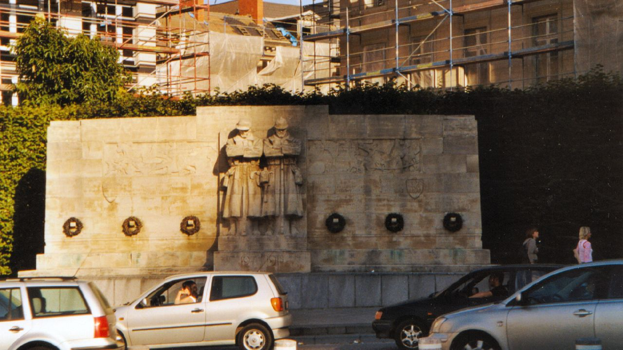 Opposite the national war memorial for Belgium stands this special memorial to the British soldiers of World War I.